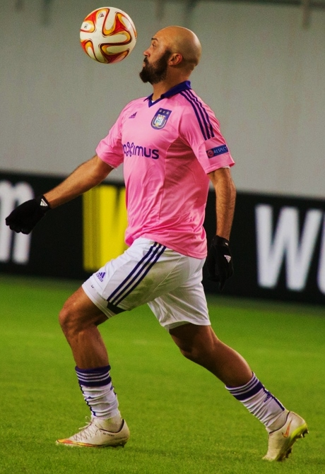 Anthony Vanden Borre